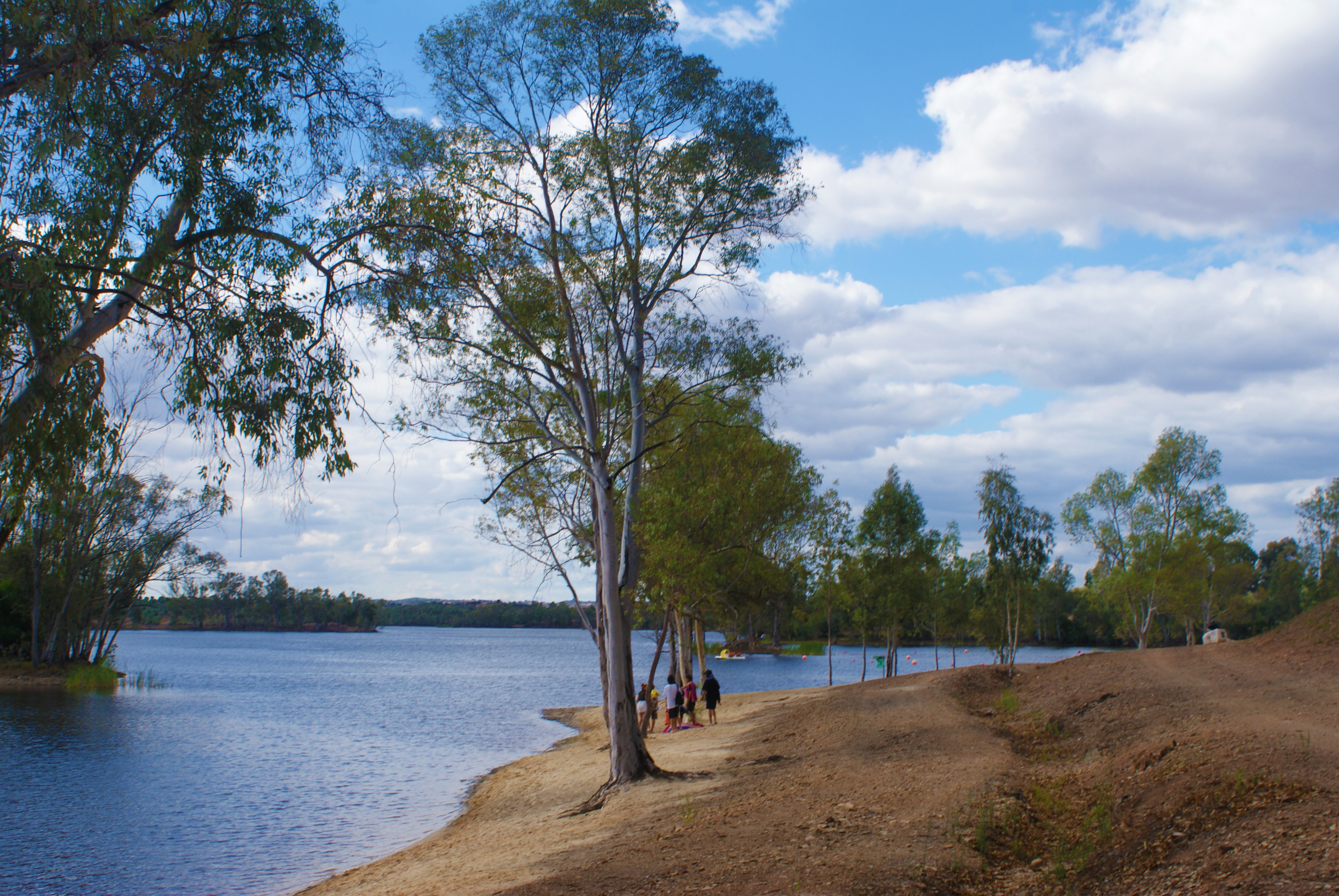 Mina de São Domingos lake, Portugal